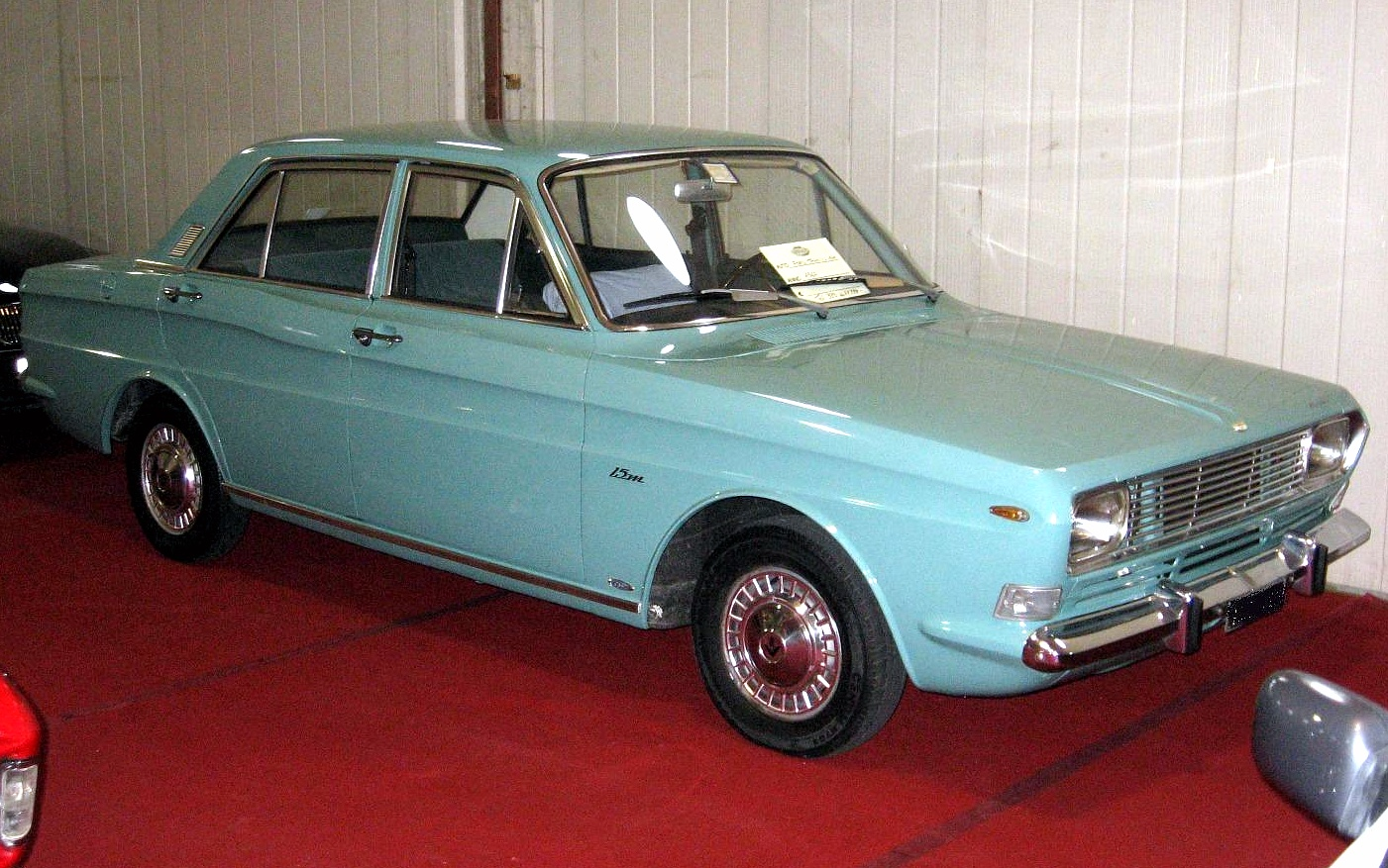 Subject:Ford Taunus 15M P6(1967) Author:Luc106 Date:November 24th, 2007 Event:Markè Retrò 2007 Place/Country:Cesena (FC), Italy I release all rights in the public domain.